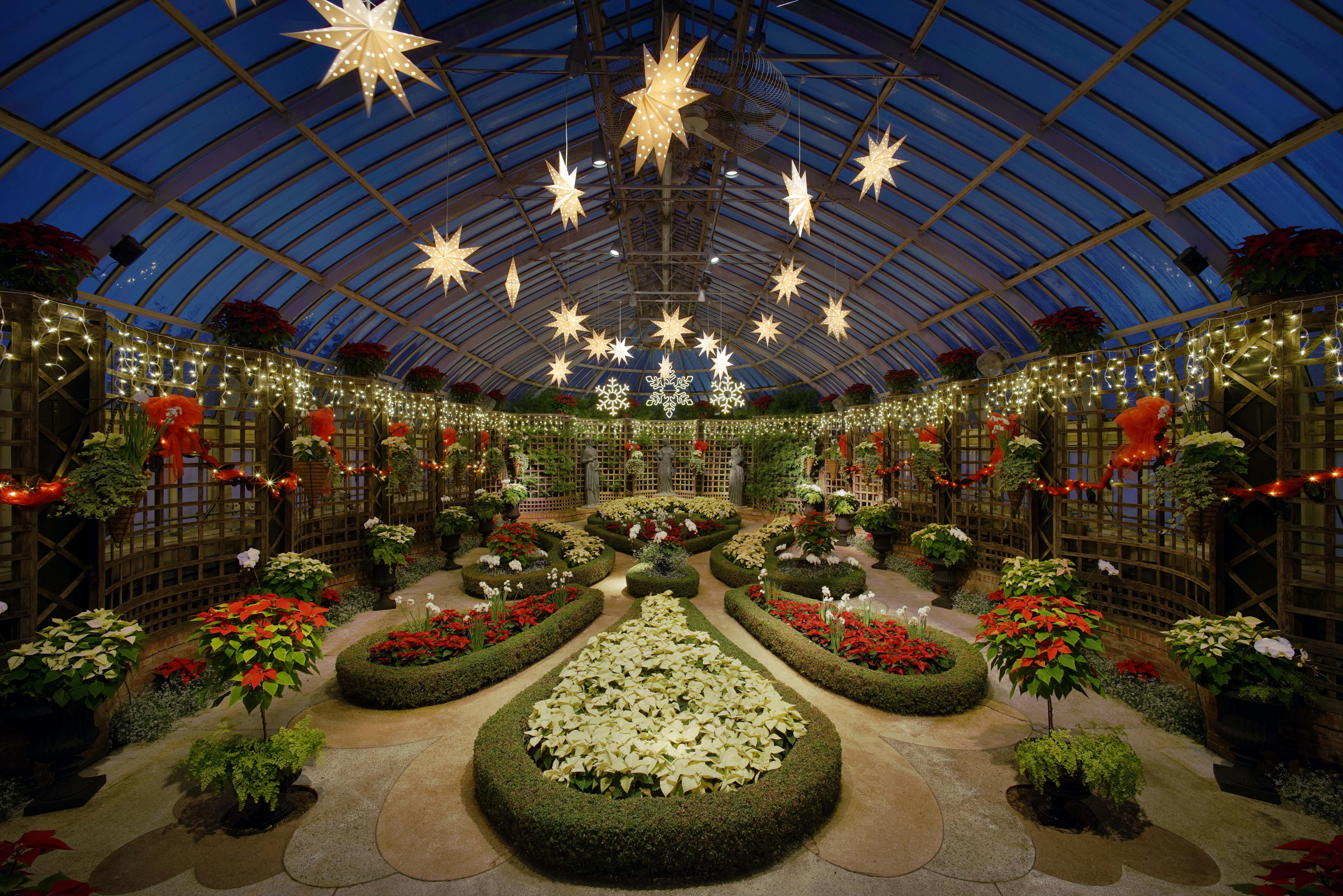 The Broderie Room at the Phipps Conservatory and Botanical Gardens during the winter flower show of 2015. The Broderie Room, also known as the Parterre de Broderie which translates to "embroidery of earth", is located in the south part of the east wing. The garden is modelled after the formal gardens of French chateaux during the reign of Louis XIV, and is a popular setting for wedding ceremonies and photo shoots. The room opened in 1939 and was originally called the Cloister Garden. In 1966, the room was redesigned as the present-day Broderie Room.